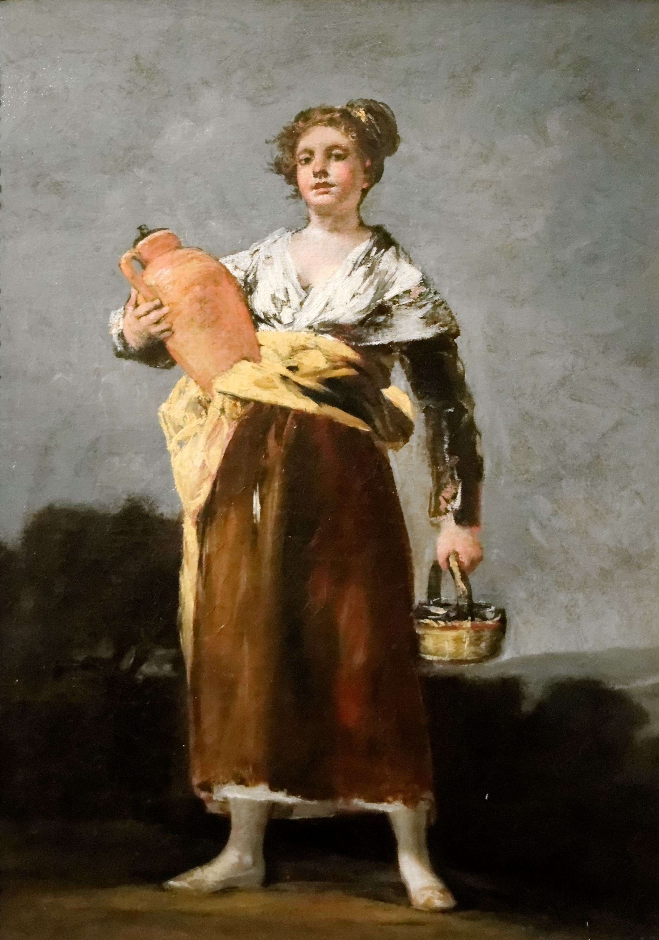 The water carrier (c 1808-1812). Francisco de Goya (1746-1828). Esterházy collection, 1871. Exposed in the Budapest Museum of Fine Arts